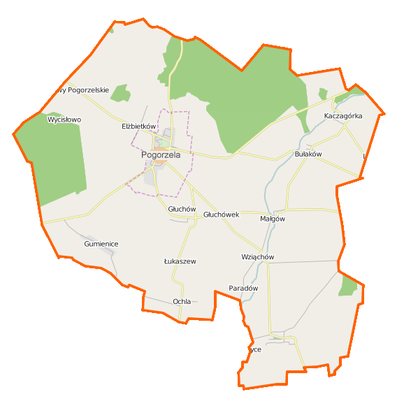 Map of Gmina Pogorzela, Poland This map of Pogorzela (gmina) was created from OpenStreetMap project data, collected by the community. This map may be incomplete, and may contain errors. Don't rely solely on it for navigation. Border coordinates51.869517.1517←↕→17.347151.7462